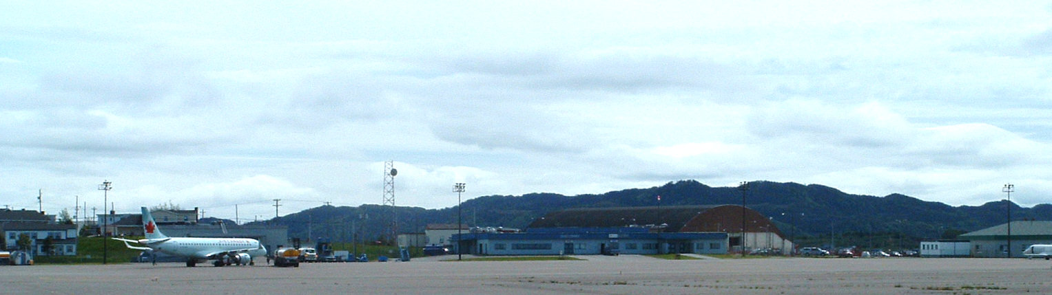 Terminal Building, Stephenville International Airport